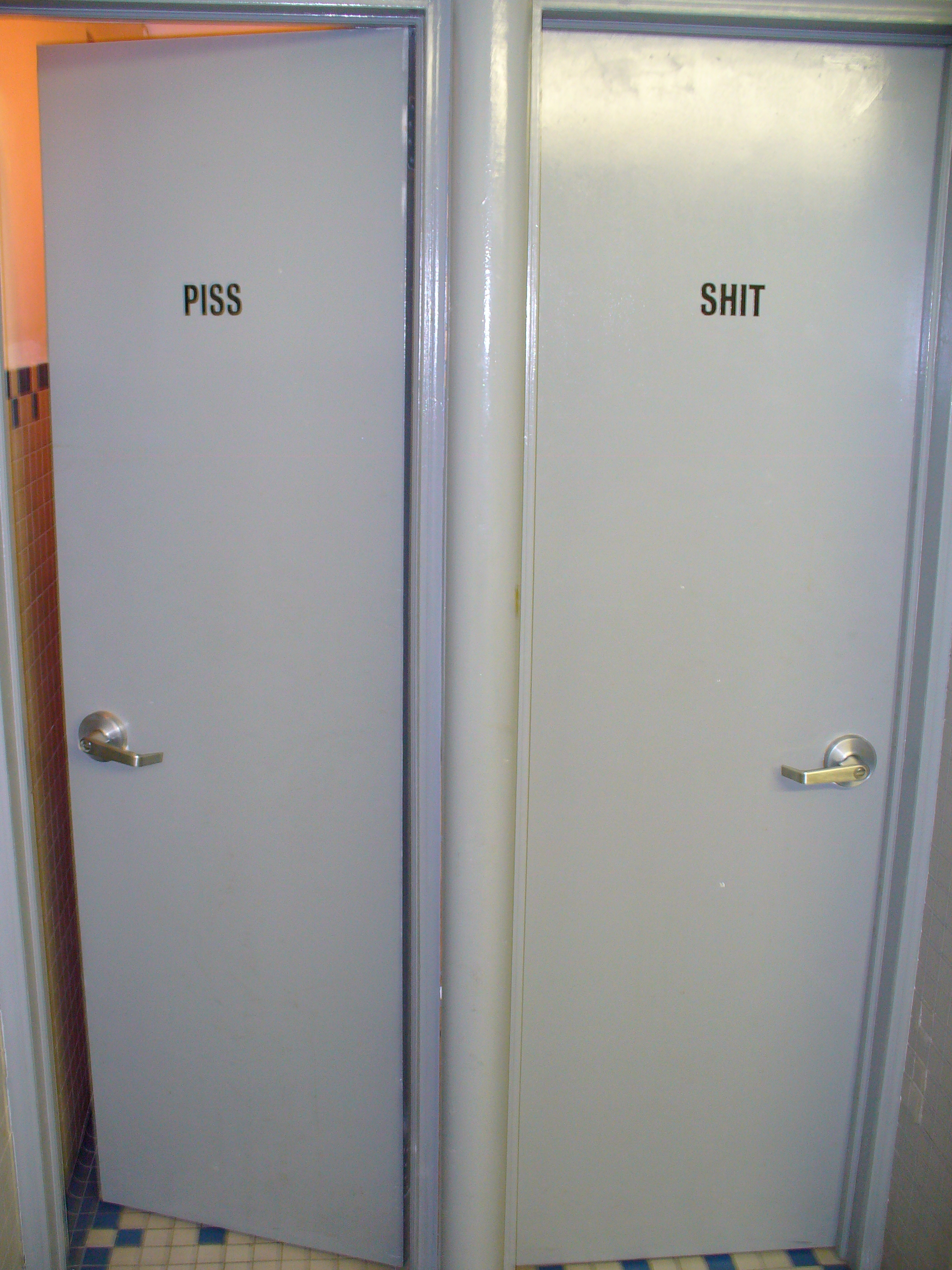 PS 1 bathroom by David Shankbone